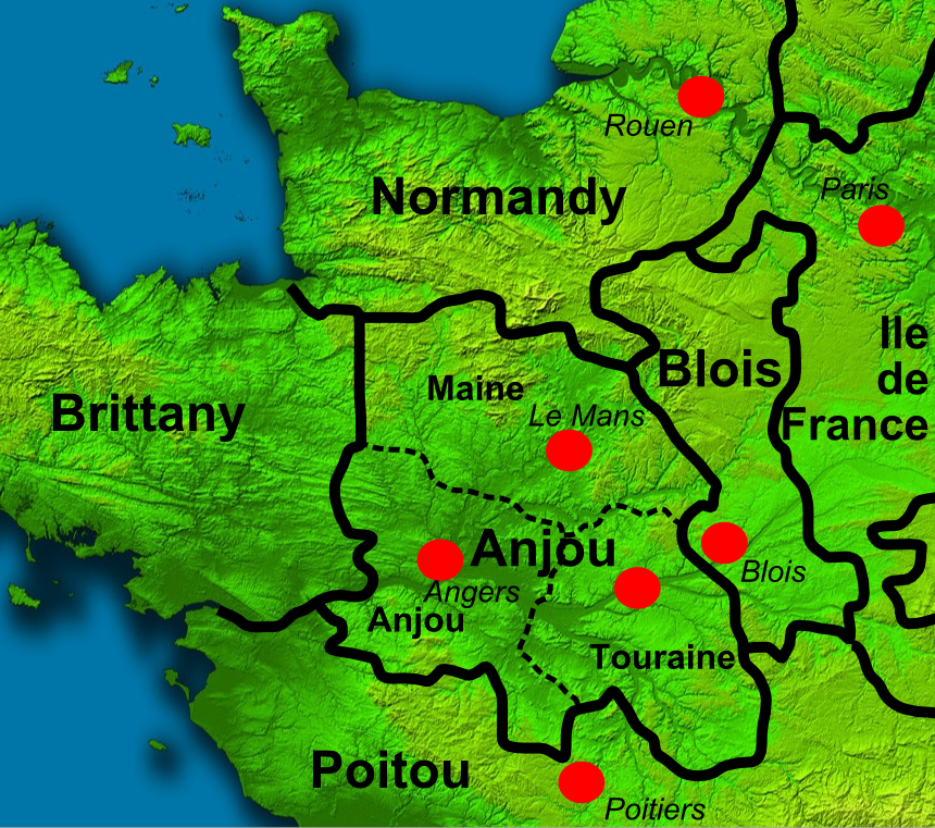 France in early-mid 12th century; data from W.L. Warren, "Henry II", p.10